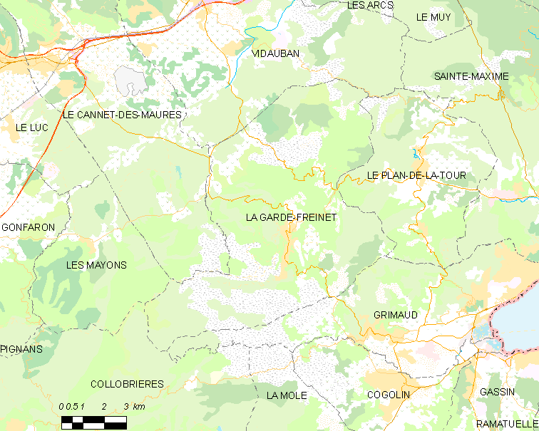 Map of French municipality La Garde-Freinet